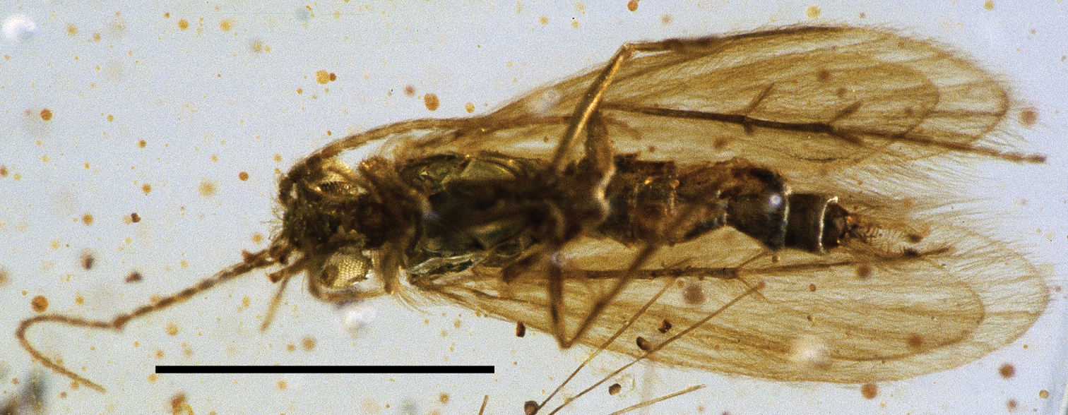 Palerasnitsynus ohlhoffi holotype (male) in ventral view. Scale bar 1mm.